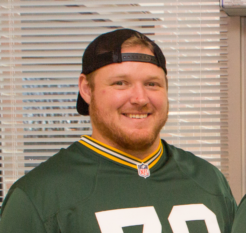 Green Bay Packers clinic visit: TJ Lang crop